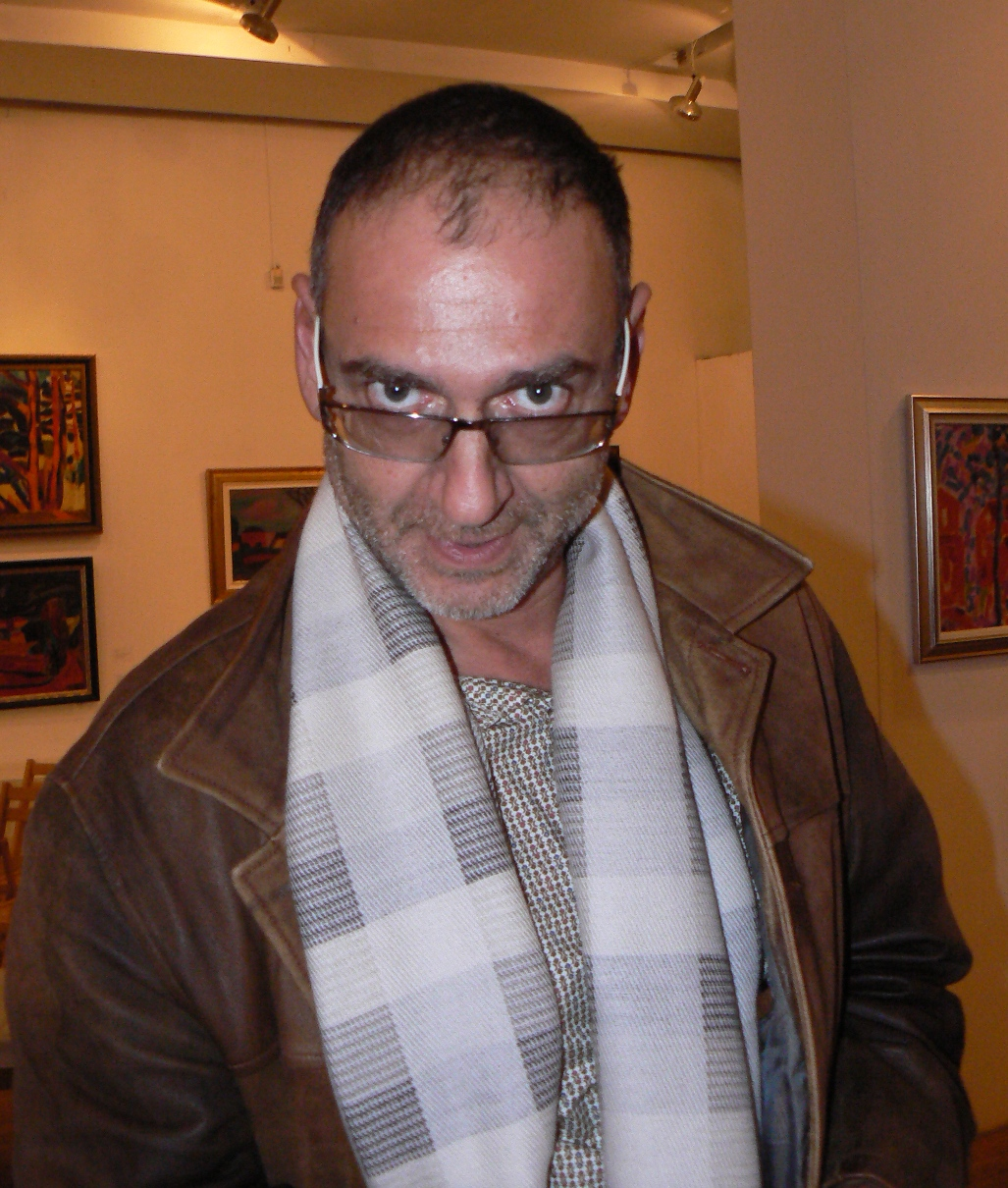 Bulgarian journalist and politician Lyuben Dilov Jr, on the literary reading of Petko Bocharov's book "Faces and fates from three Bulgarias"